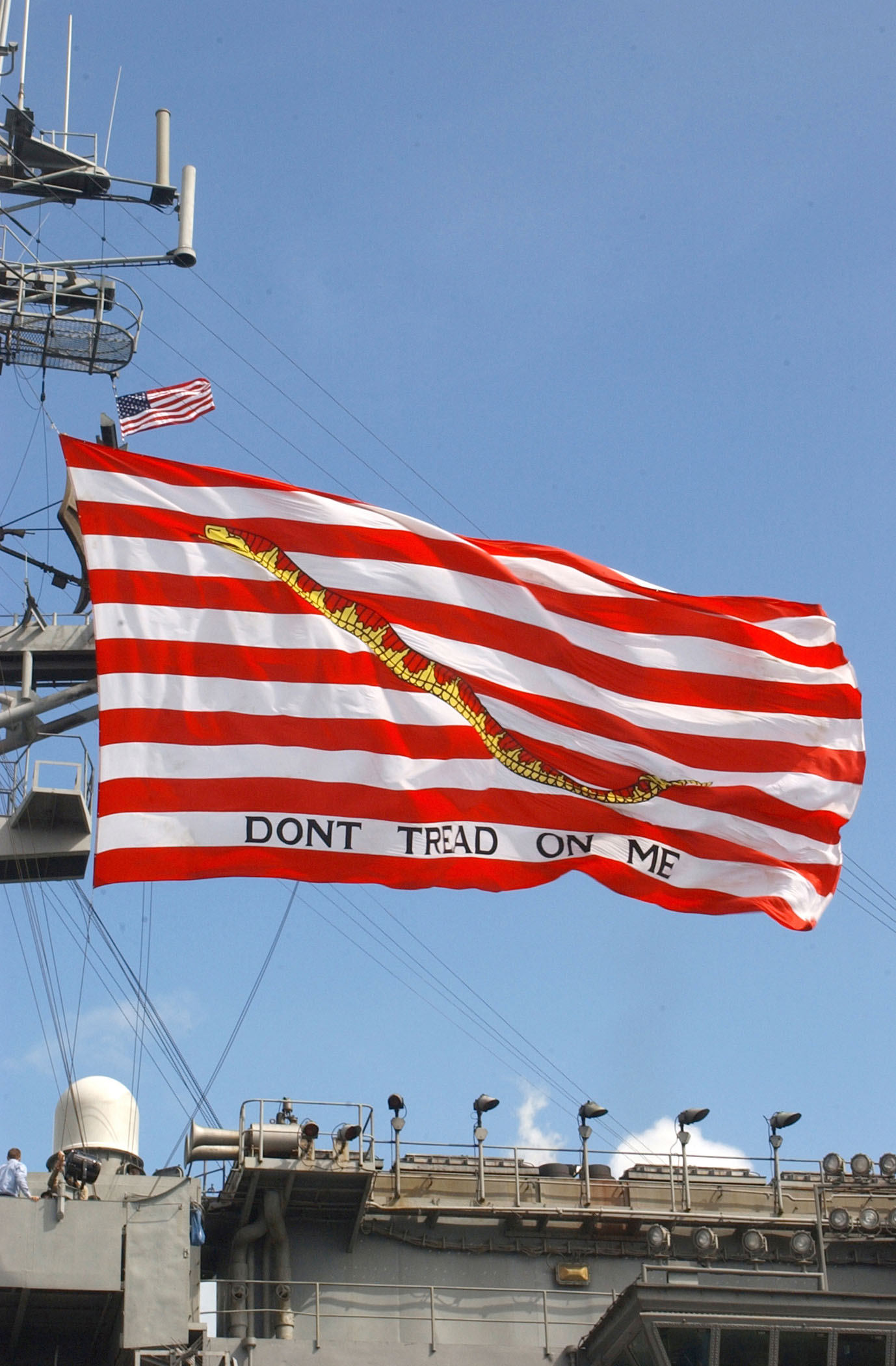 At sea aboard USS Kitty Hawk (CV 63) Feb. 15, 2003 -- The Navy’s largest First Navy Jack, with the motto “Don’t Tread On Me”, flies high above USS Kitty Hawk during her transit through the Straits of Malacca. Kitty Hawk and embarked Carrier Air Wing 5 (CVW-5) were recently ordered to the Central Command area of responsibility to join coalition forces preparing for possible operations in that area. Kitty Hawk is America’s longest-serving active warship and the world’s only permanently forward-deployed aircraft carrier, operating out of Yokosuka, Japan. U.S. Navy photo by Photographer’s Mate 3rd Class Todd Frantom. (RELEASED) For more information about the history of the Navy Jack go to